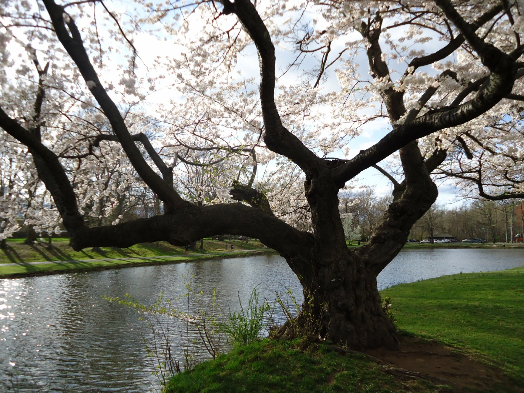 Scene from around the lake at Nomahegan Park, across the street from Union County College, in Cranford, New Jersey.